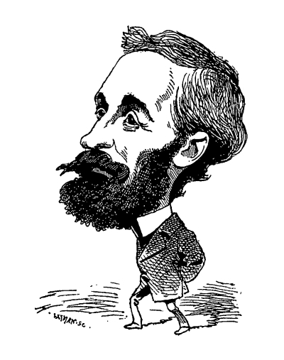 French journalist and politician Édouard Lockroy (1838-1913) by Georges Lafosse (1844-1880)